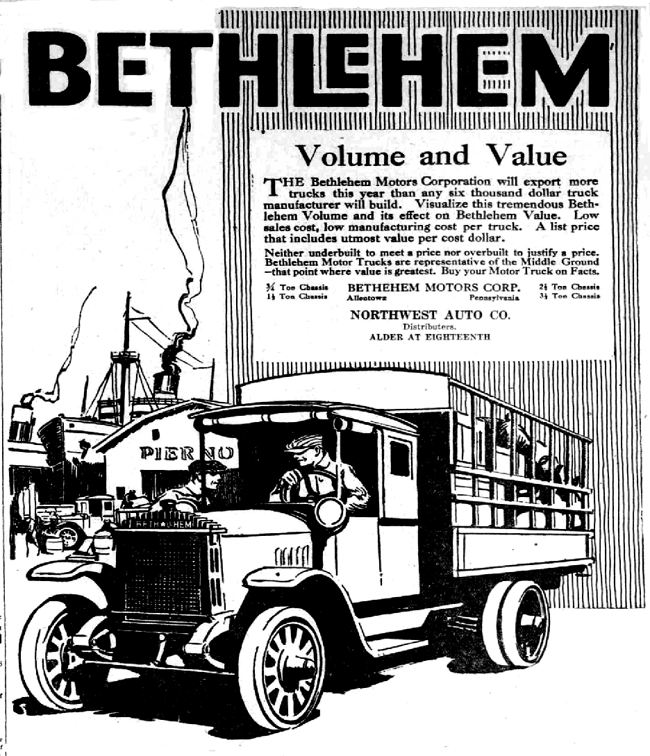 1920 Oregon newspaper ad for Bethlehem Trucks.